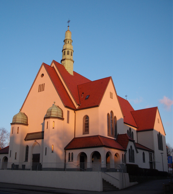 St.Bernardus church in Oberhausen-Sterkrade, rom-cath. church now used as an event church